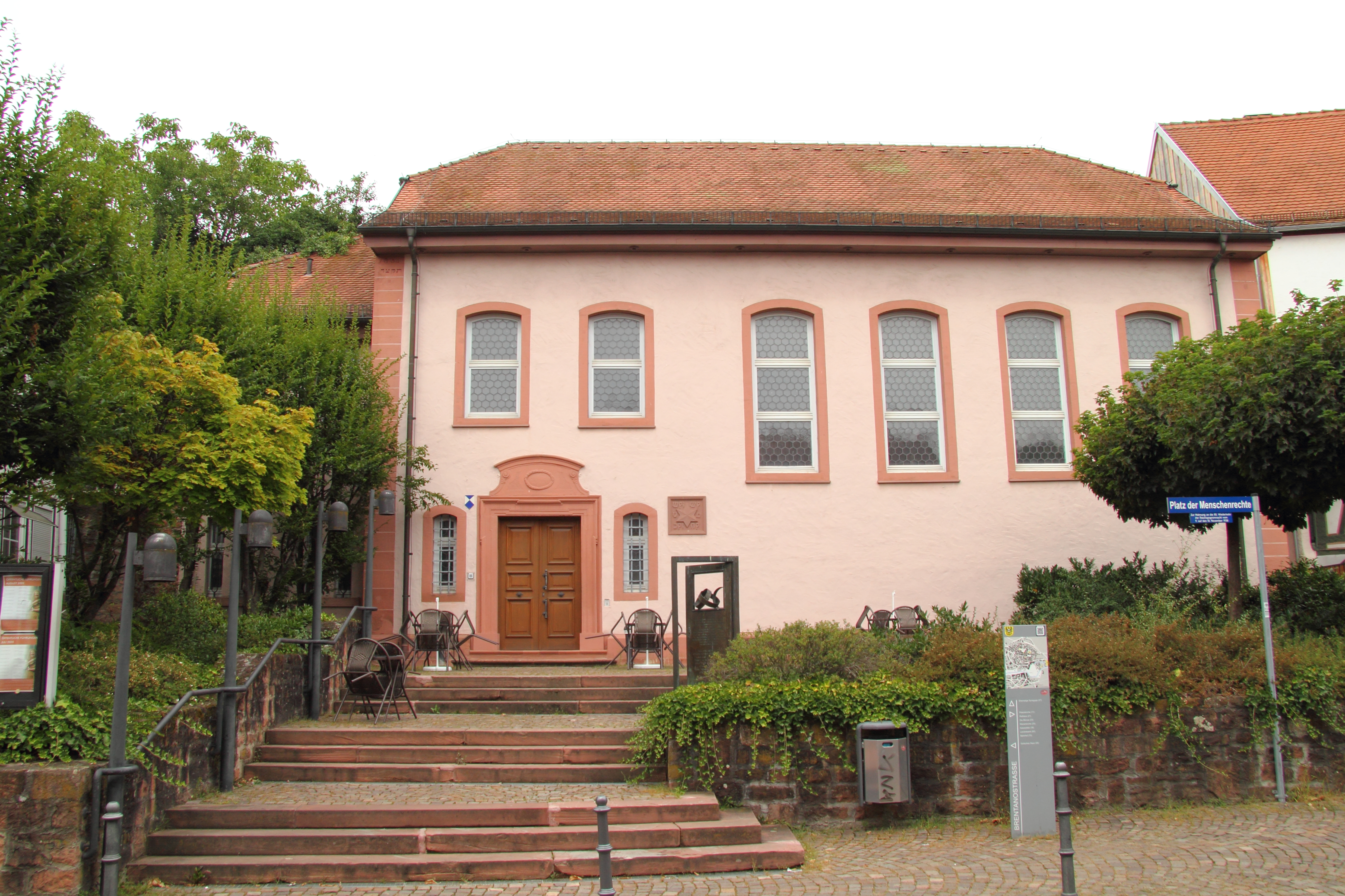 Gelnhausen, State of Hesse, Germany: former synagogue